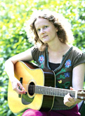 Linde Nijland - folk singer / songwriter